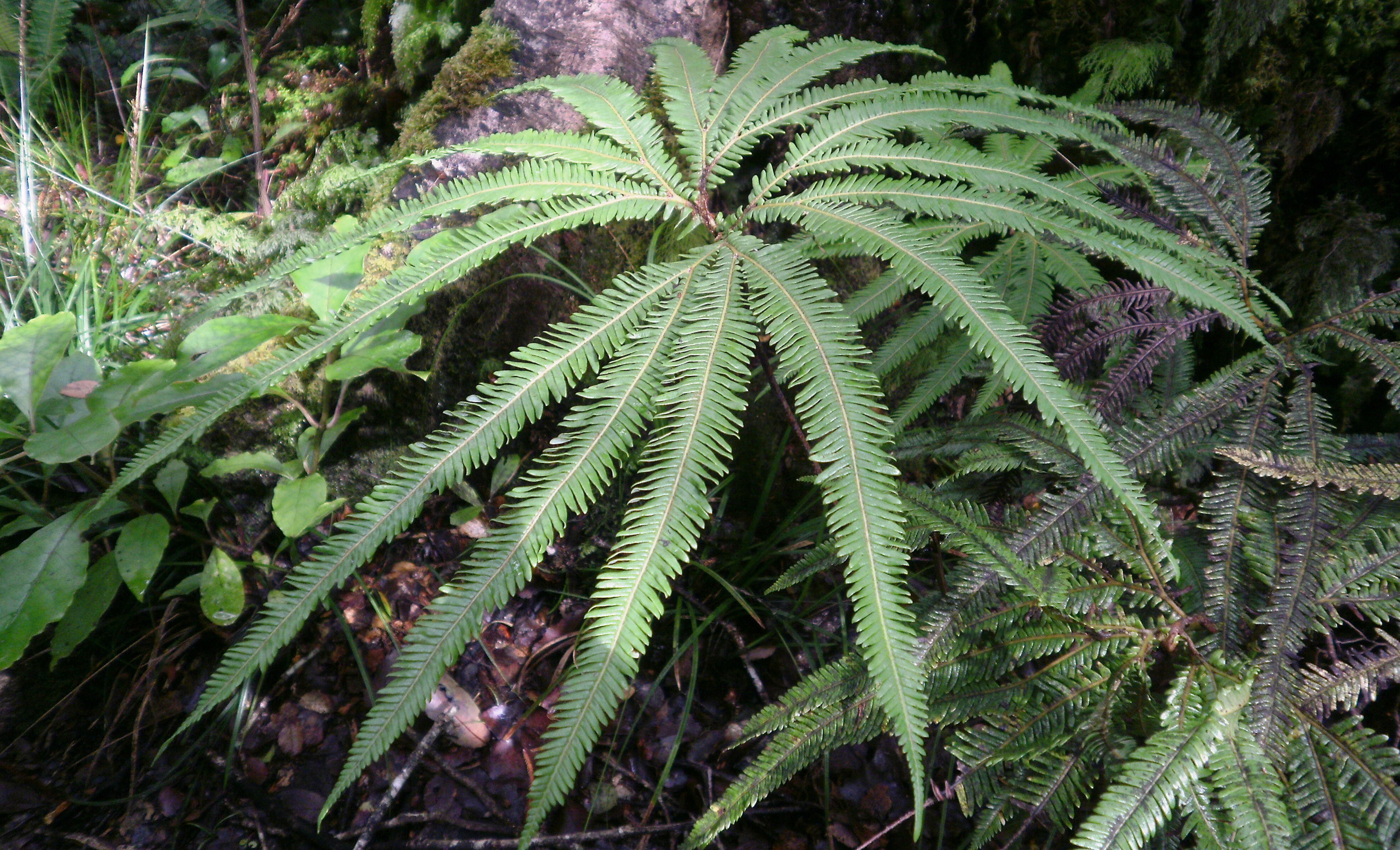 Sticherus cunninghamii, umbrella fern, tapuwae kotuku, waekura, near Waiohine Gorge, Tararua Forest Park, New Zealand.